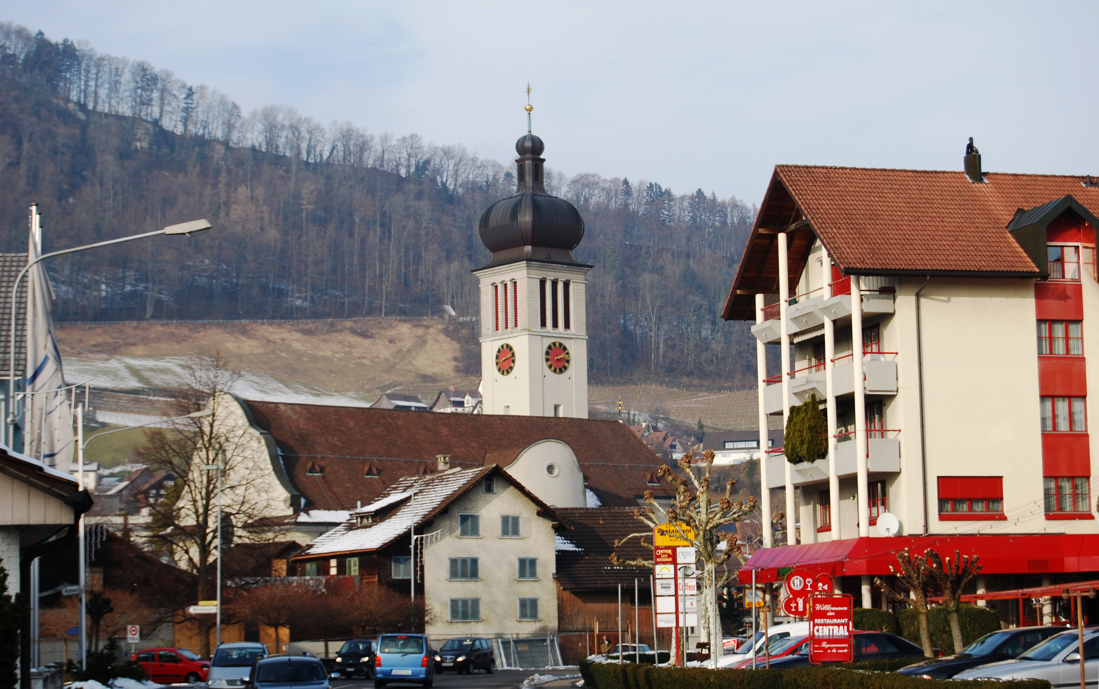 Church of Au (Au-Heerbrugg), canton of St. Gallen, SwitzerlandEsperanto: Preĝejo de Au (Au-Heerbrugg), Kantono Sankt-Galo, Svislando